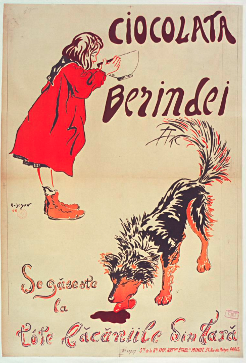 Ciocolata Berindei, lithographic poster by Amédée Joyau. Printer : Minot (Paris), script in romanian.